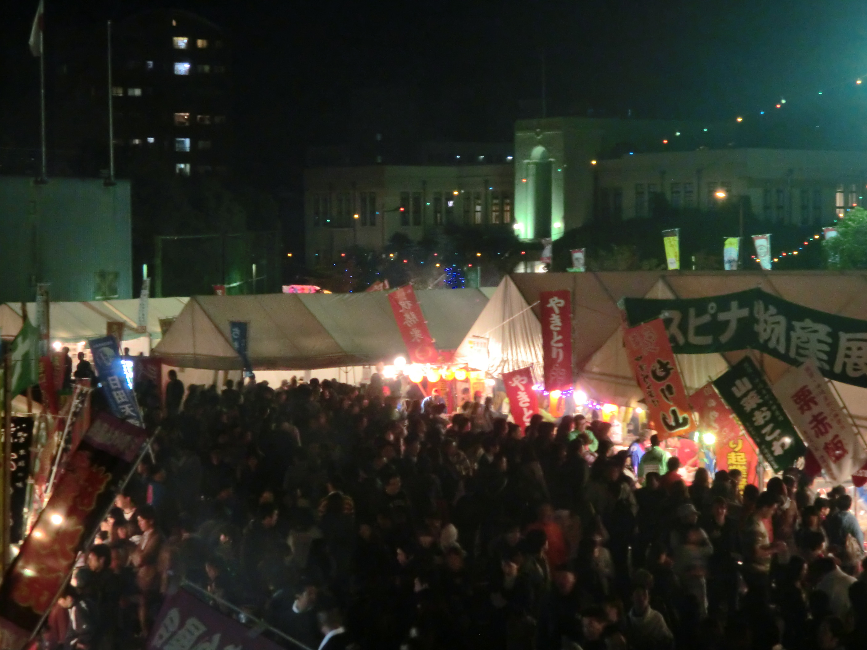 Kigyousai(Birthday Festival of Yawata Steel Works) in Kitakyushu,Fukuoka,Japan.